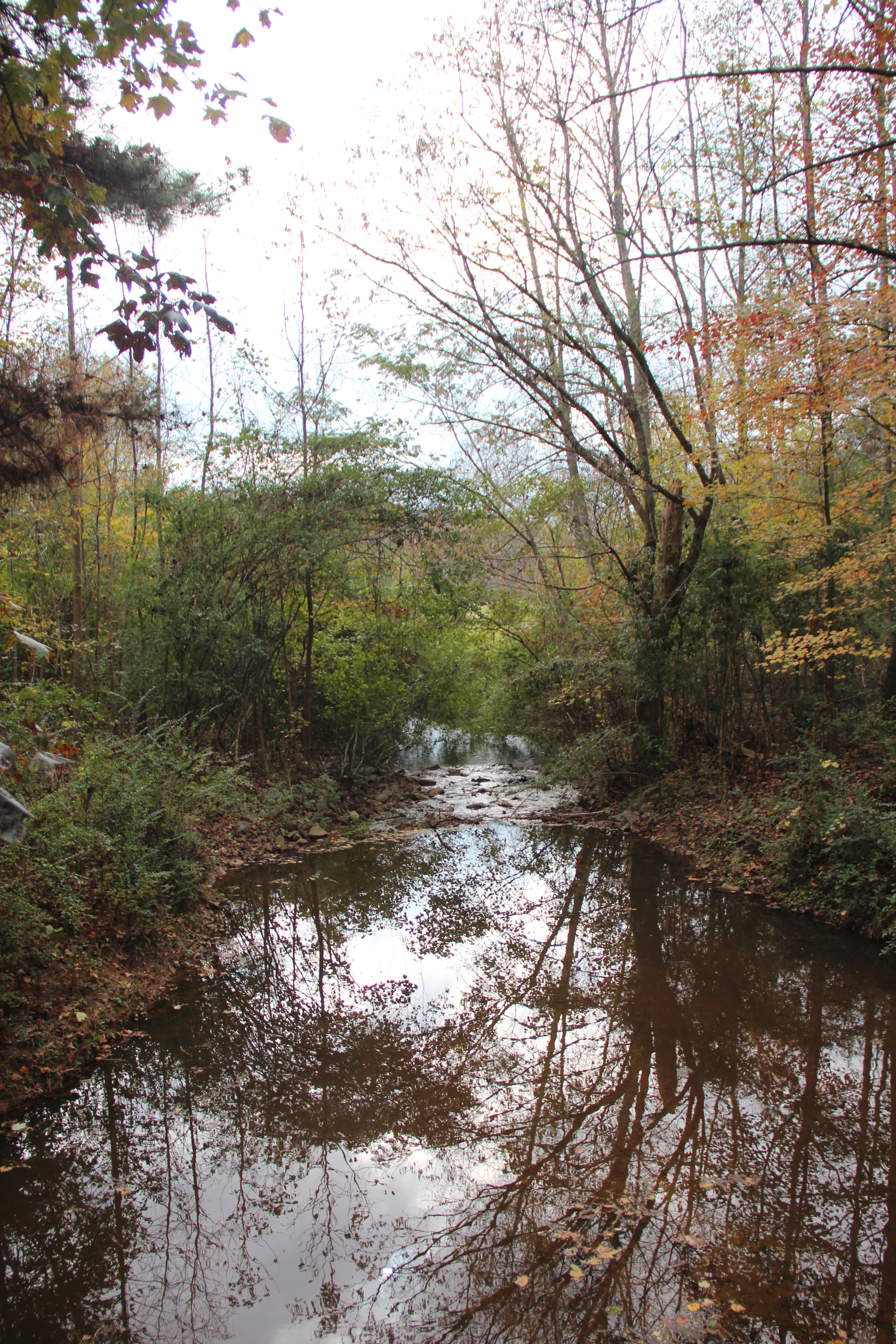 Johns Creek (Chattahoochee River) at Findley Road